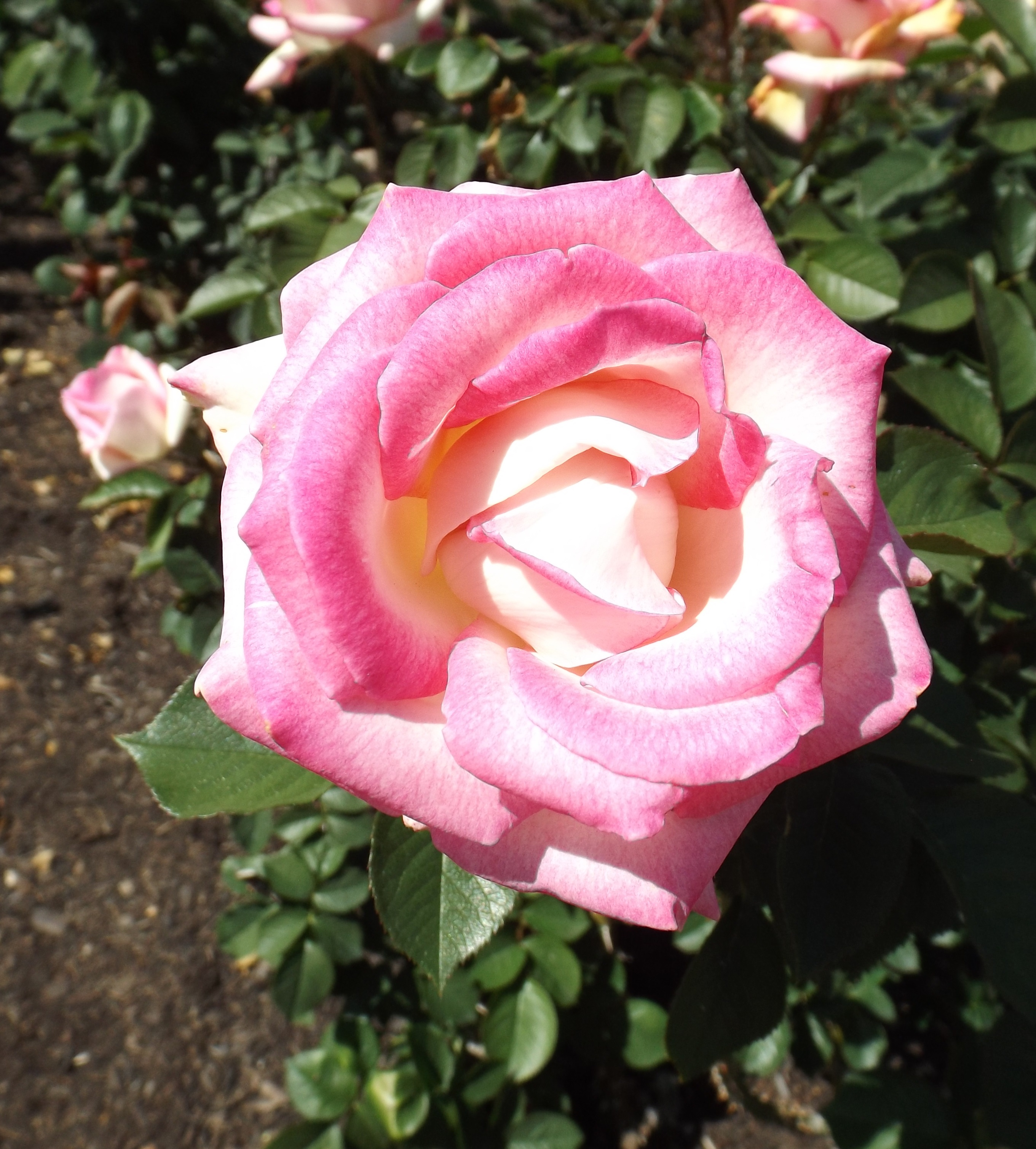 Rosa 'Brigadoon' at the Inez Grant Parker Memorial Rose Garden, Balboa Park, San Diego, California, USA